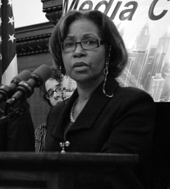 Joel Kelsey of Consumers Union, Hannah Sassaman of Prometheus Radio Project, Philadelphia City Councilwoman Blondell Reynolds Brown